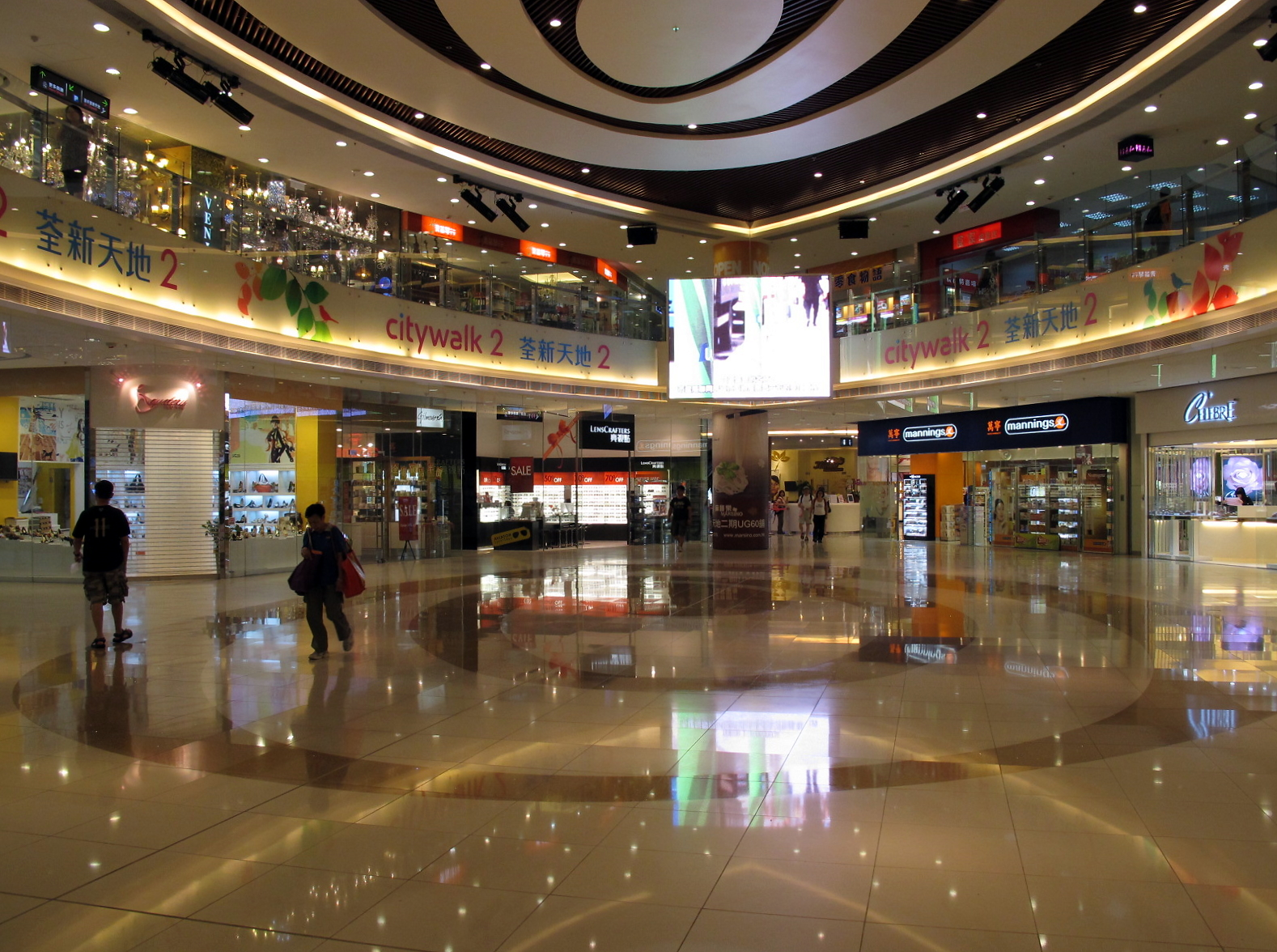 Citywalk Phase 2 Main Void 荃新天地2期商場中庭